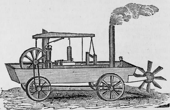 1805 Amphibious steam-powered carriage and paddle boat designed by American inventor Oliver Evans (1775-1819)